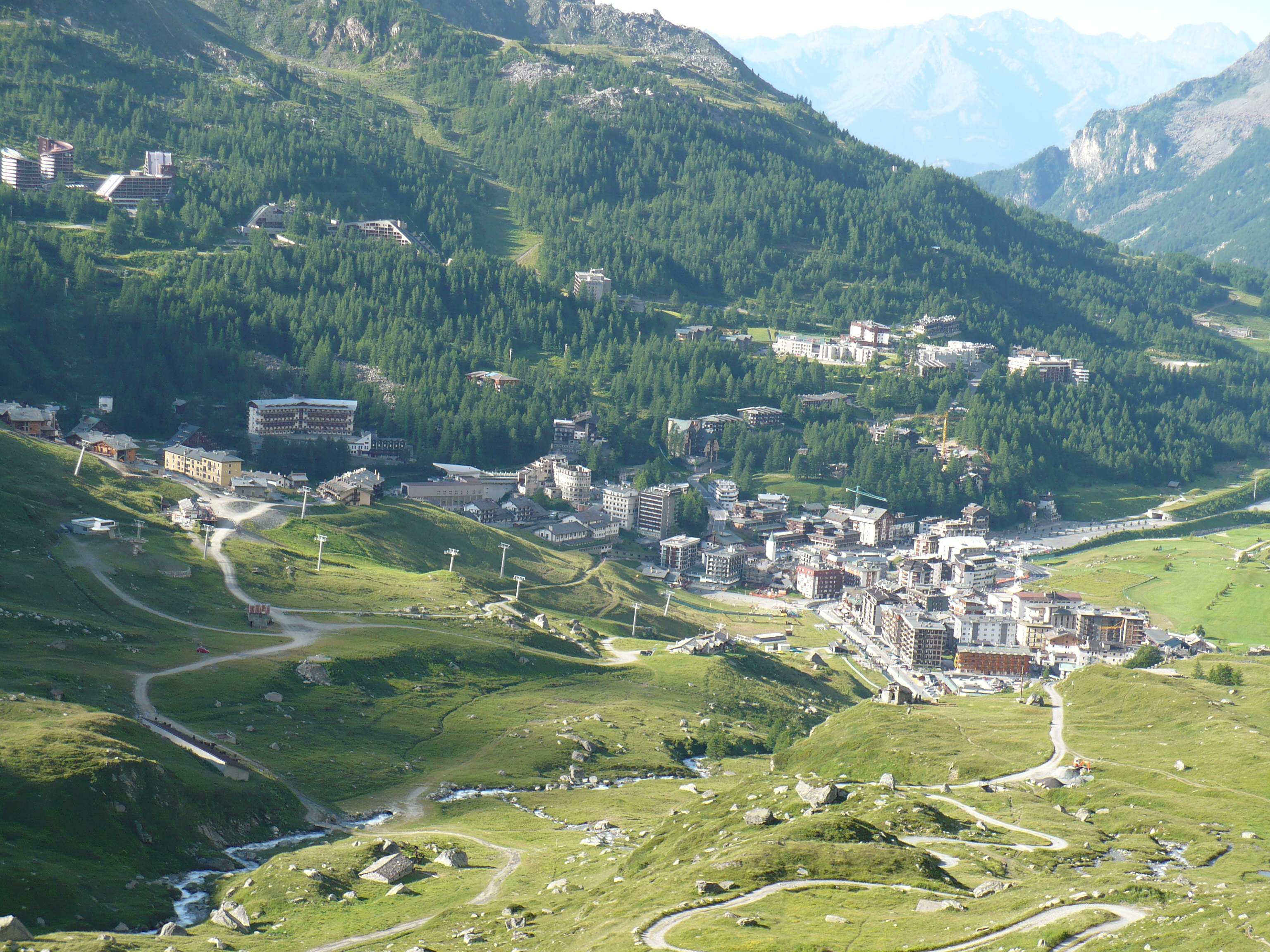 Breuil-Cervinia - Valtournenche - Aosta Valley - Italy